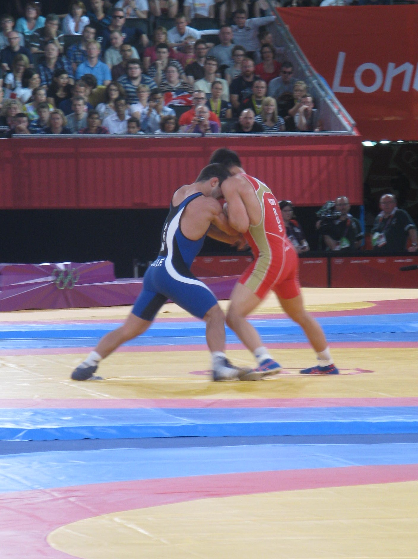 Roman Vlasov and Arsen Julfalakyan push against each other, hardly moving, in the 74kg Greco-Roman Wrestling Gold medal match.